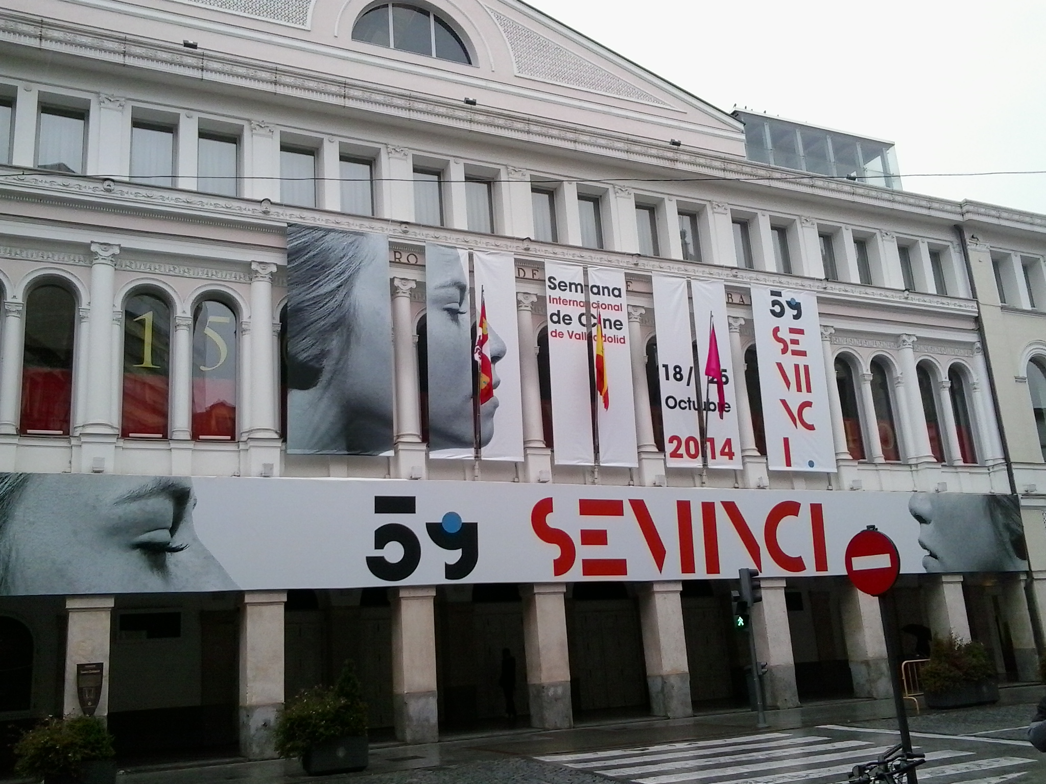 Outside of the Teatro Calderón in Valladolid (Spain) during the 59th Seminci (2014)